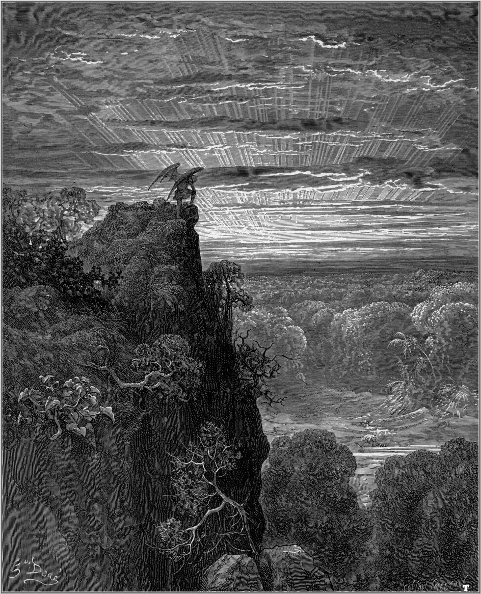 Illustration for John Milton’s “Paradise Lost“